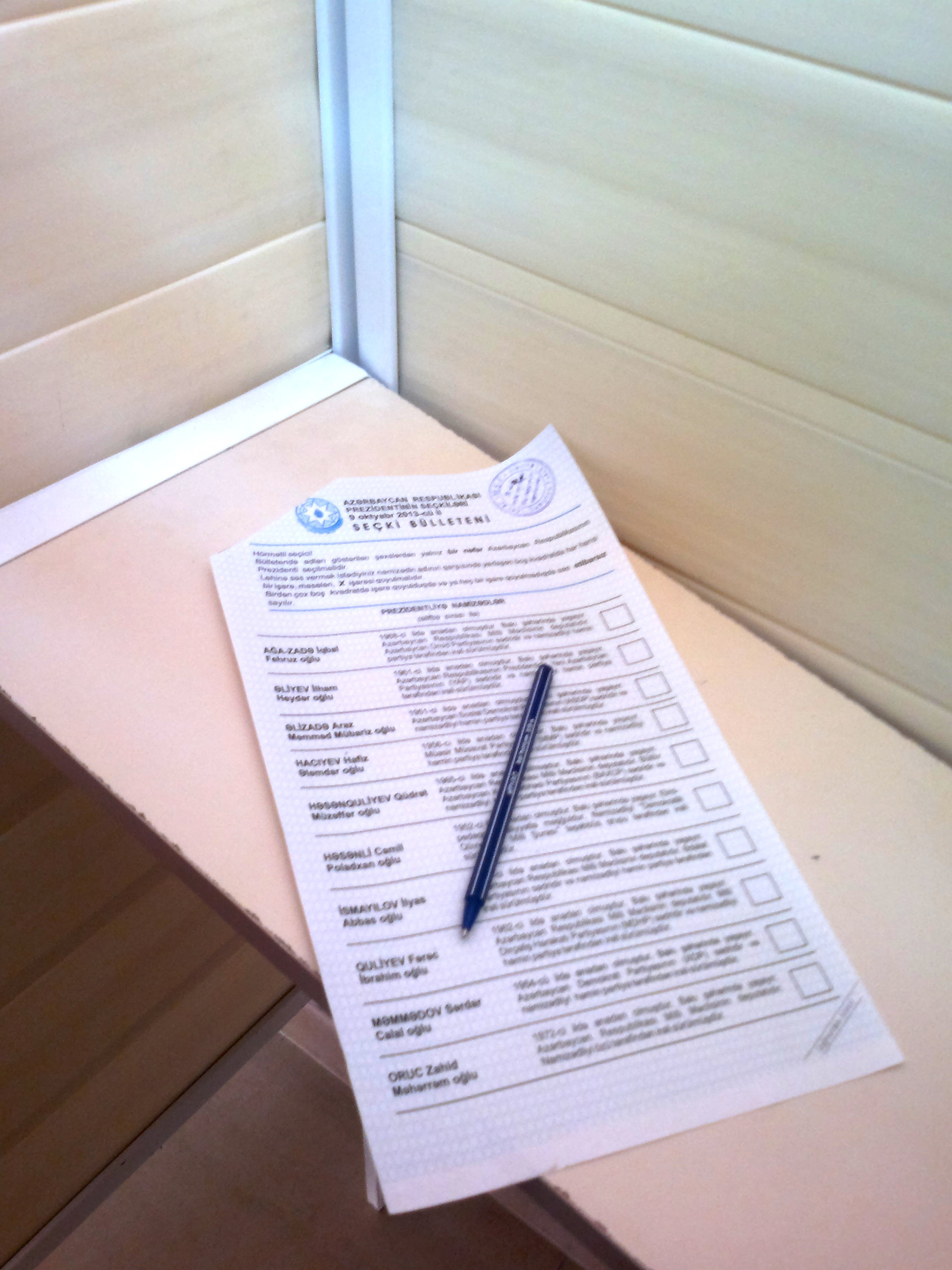 Bulletin for Azerbaijan's President Elections 2013. In the voting cabin in Baku.